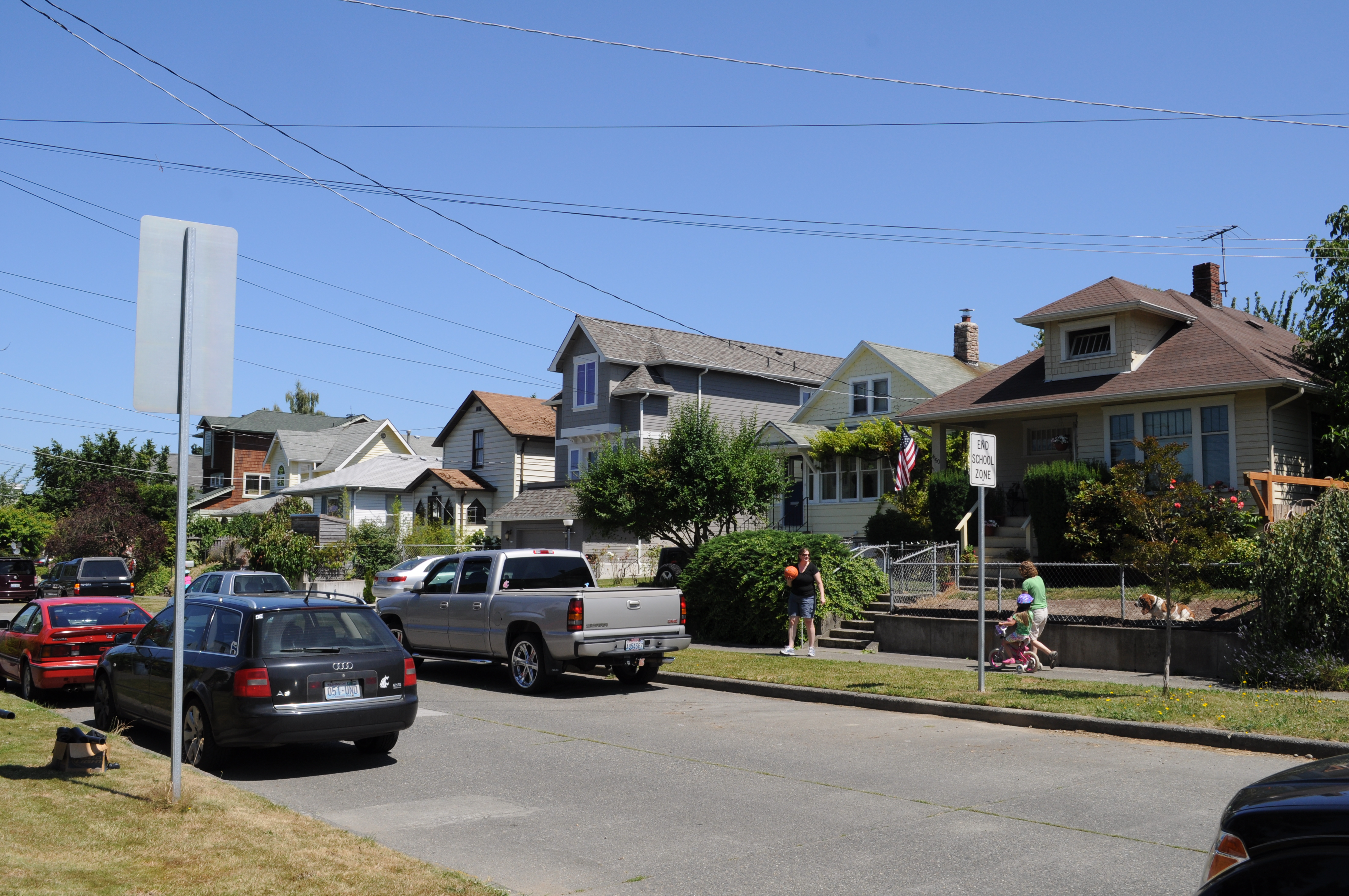 Houses on 20th Ave SW in the Pigeon Point neighborhood of Seattle, Washington, USA.